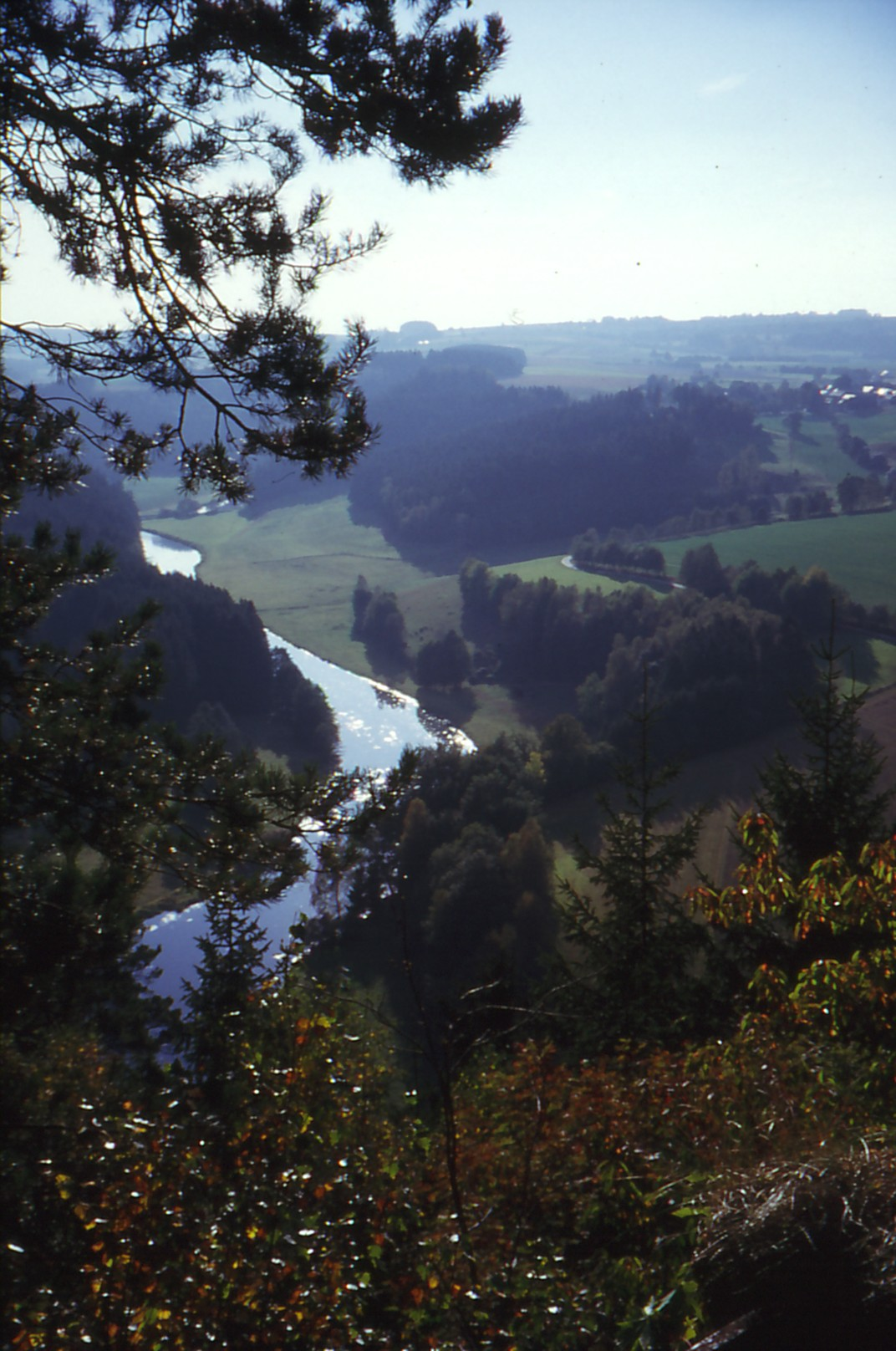 Upper Saale valley, near Hof, Bayern